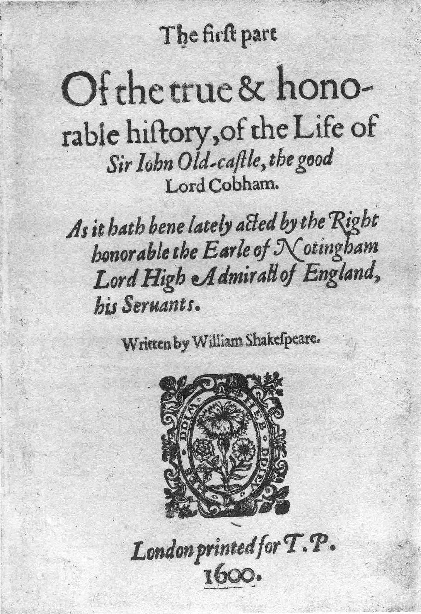 The False Folio edition of Sir John Oldcastle (1619) title page